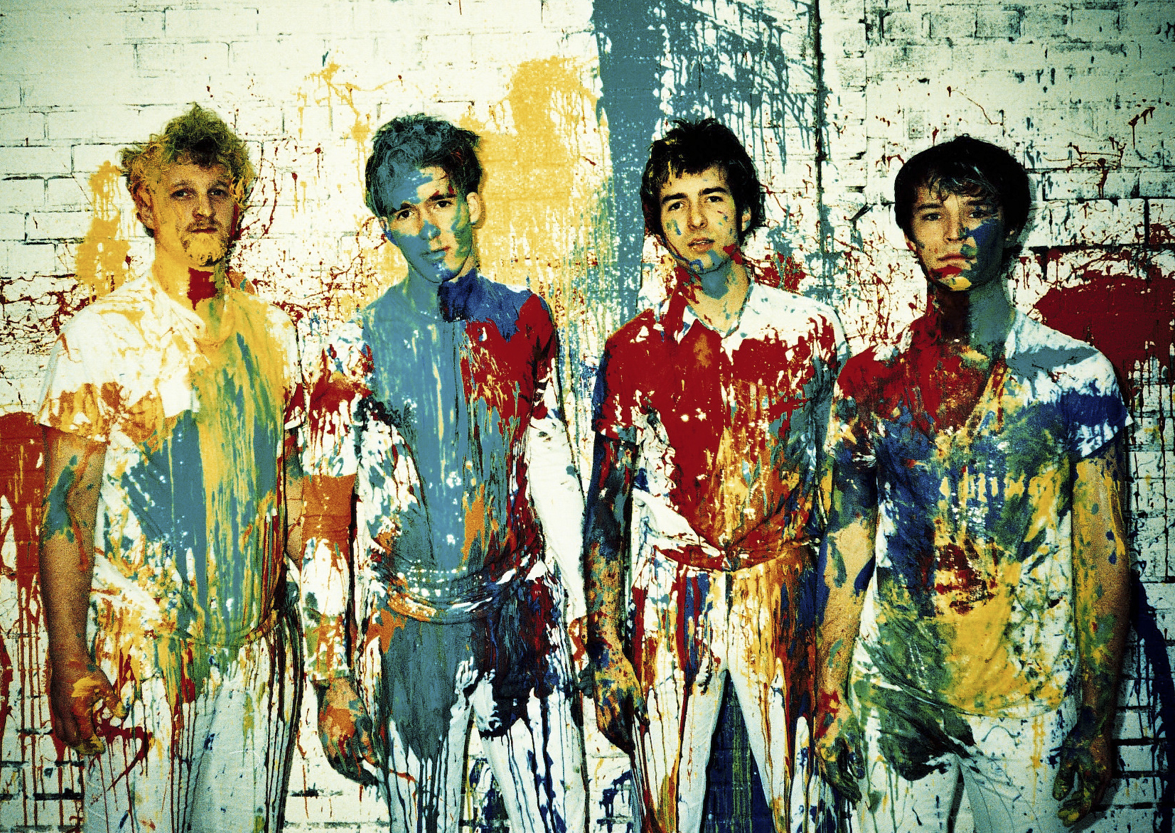 A press photograph of the band Locksley.